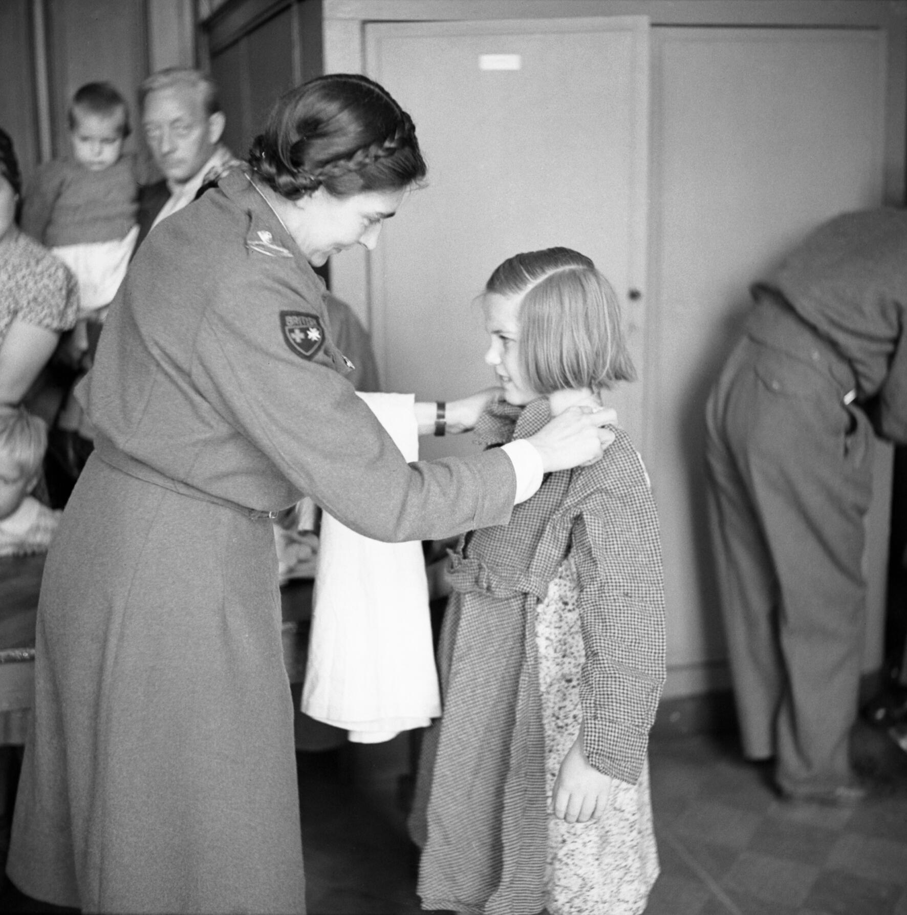 Holland After Liberation 1945 A girl is fitted out with new clothes by a Red Cross worker at a civilian relief centre in The Hague. All clothes come as donations from the United Kingdom.